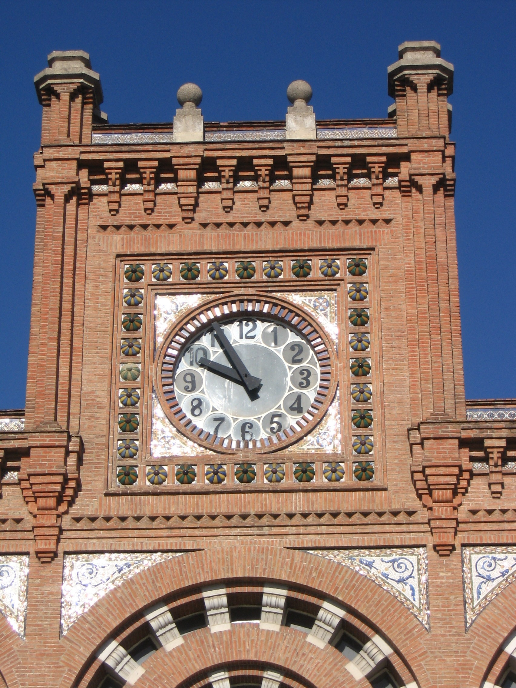 Clock at the Aranjuez Railway Station (Madrid, Spain)